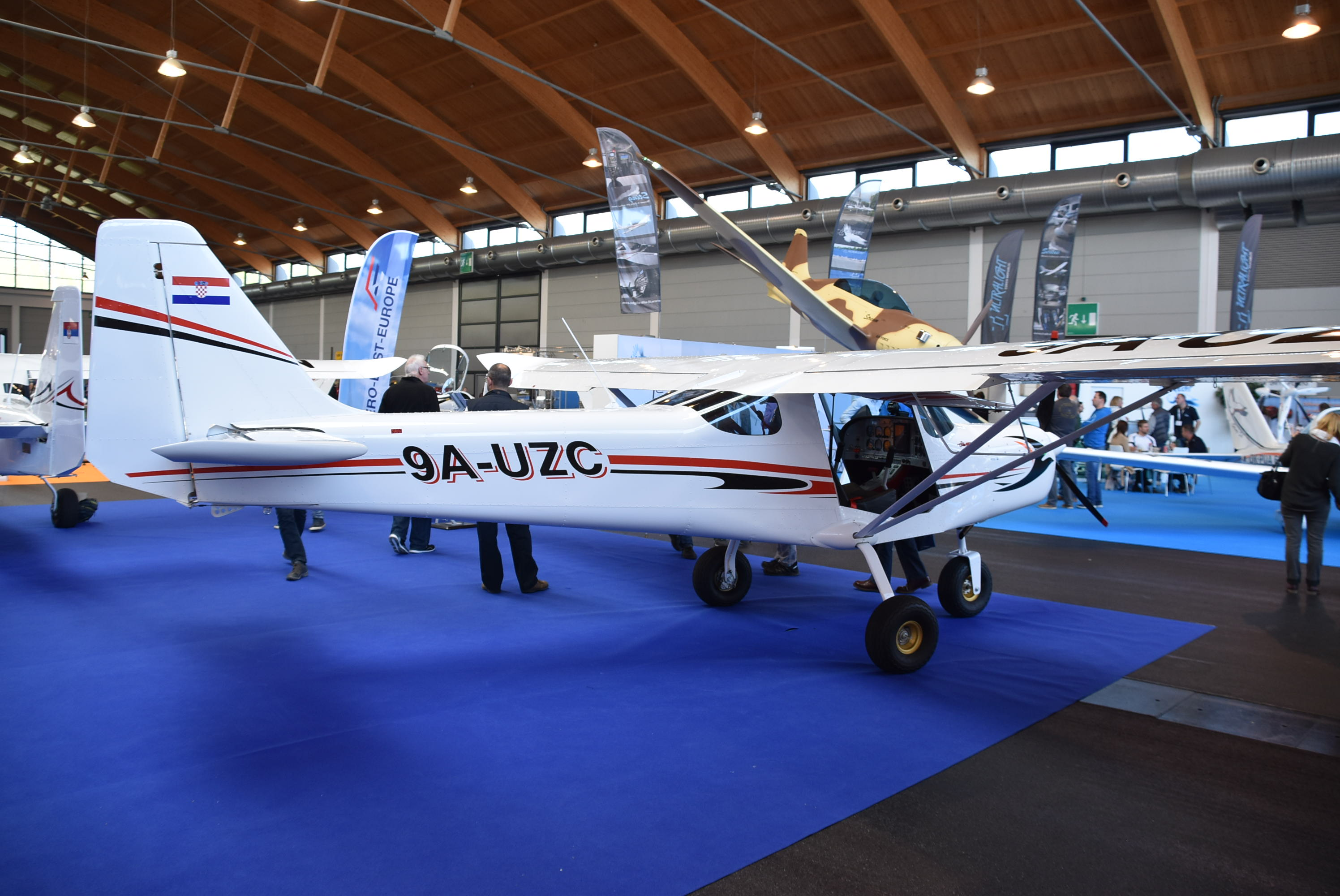 Aero East Europe Sila 450C at Aero2016,Messe Friedrichshafen, Germany, 20/04/16.